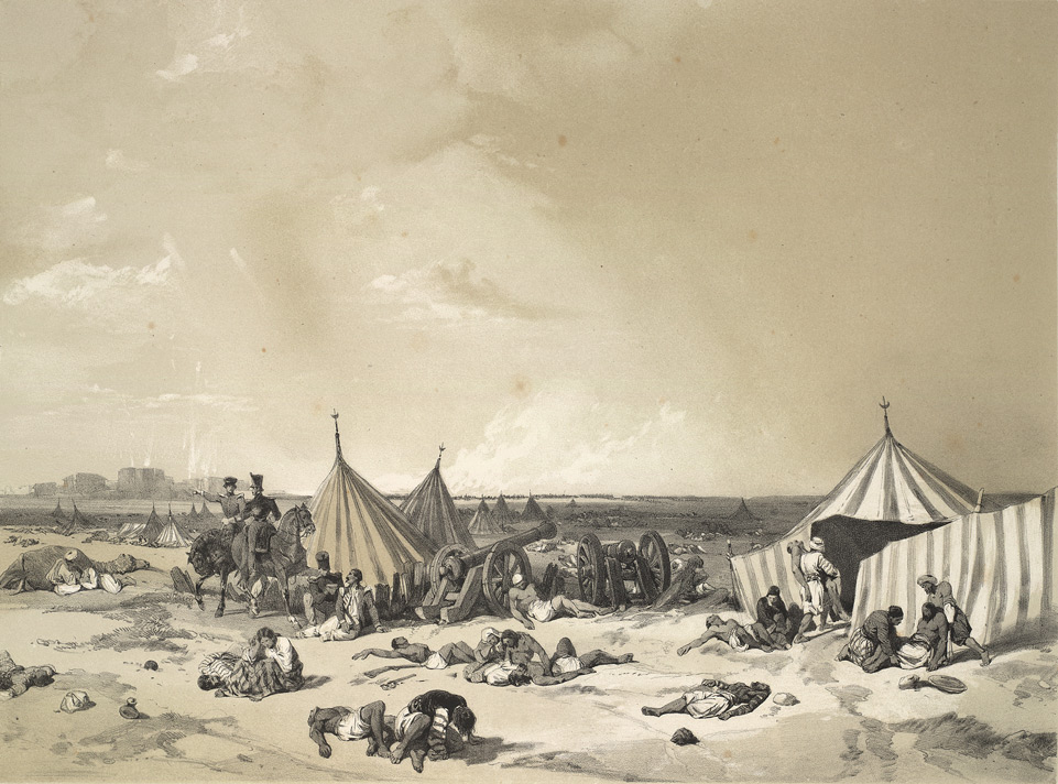 The aftermath of the Battel of Ferozeshah.